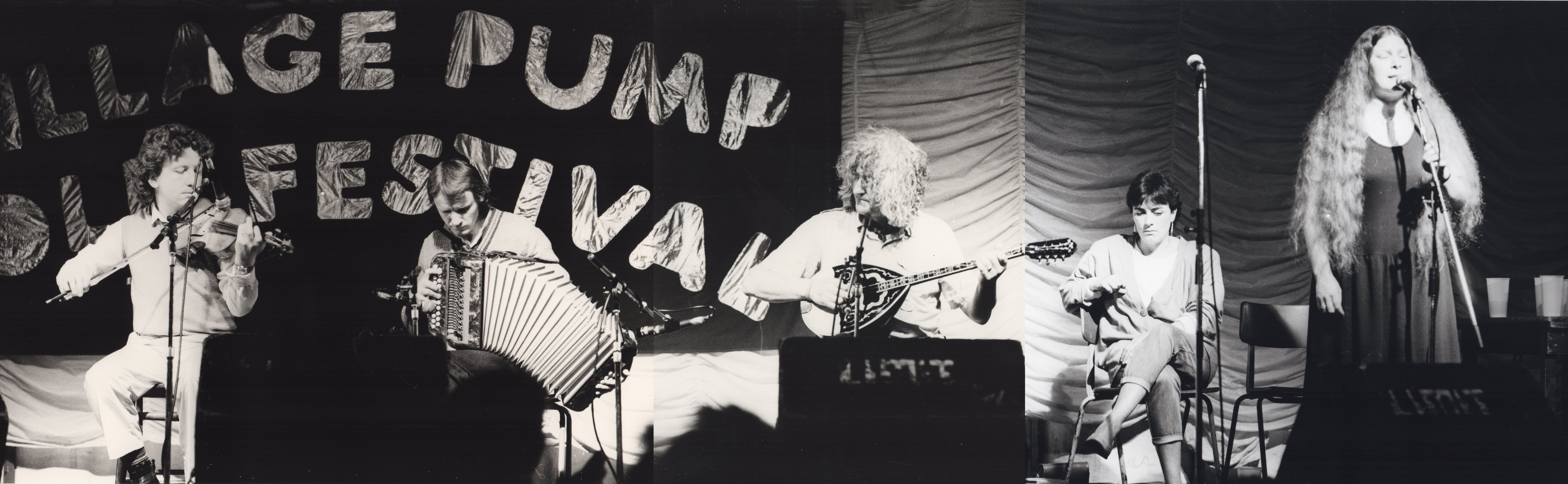 De Dannan, Irish folk band at the Trowbridge Folk Festival, 1985 (Tony Rees photograph). L-R: Frankie Gavin (fiddle); Martin O'Connor (accordion); Alec Finn (Bouzouki); Mary Black and Dolores Keane (vocals).